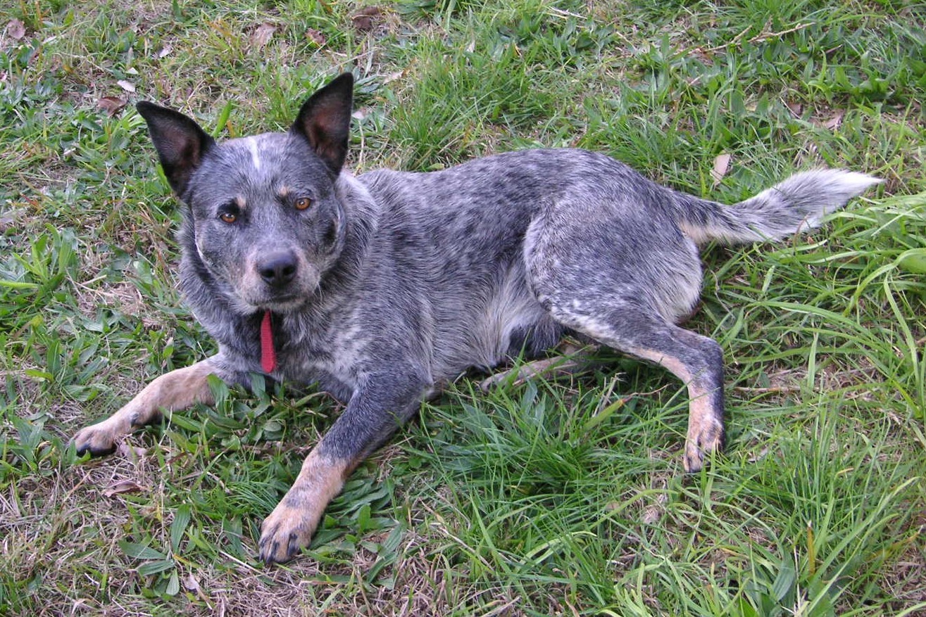 A "Blue Heeler", an Australian Blue Cattle Dog, Harry, aged 3. source: self Author: TTaylor 2006